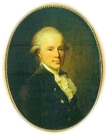 Pierre Antoine Gérard de Bosc de la Calmette (1752-1803), Dutch diplomat, Danish district officer and estate owner, garden architect, creator of Liselund.